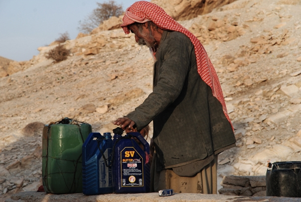 A Yezidi shepherd fetches water from a spring in Jabal Sinjar for his flock, which he pastures in higher, arid regions.